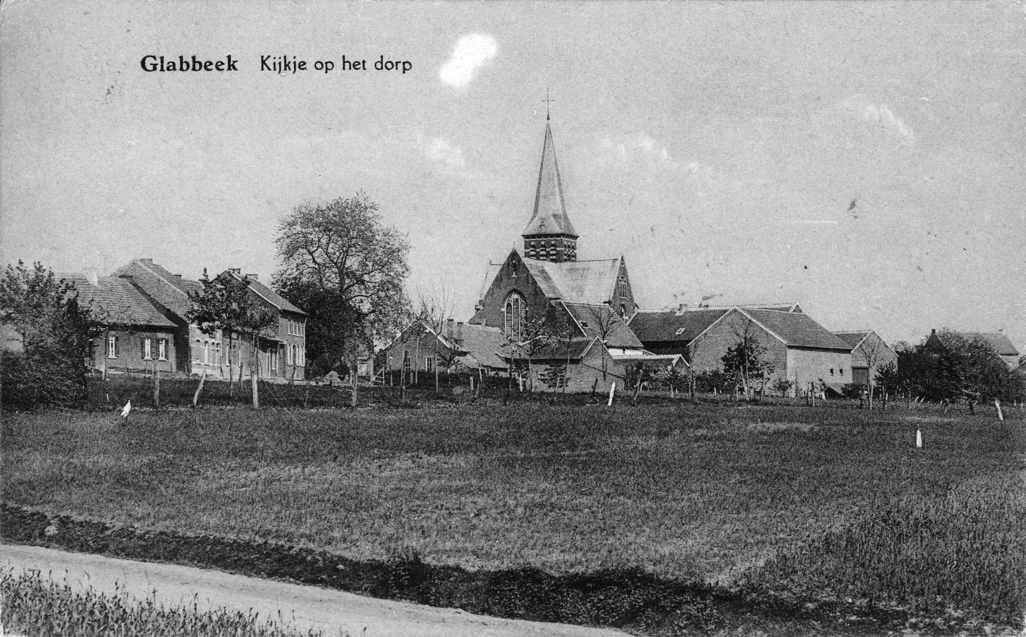 Postcard of the village of Glabbeek